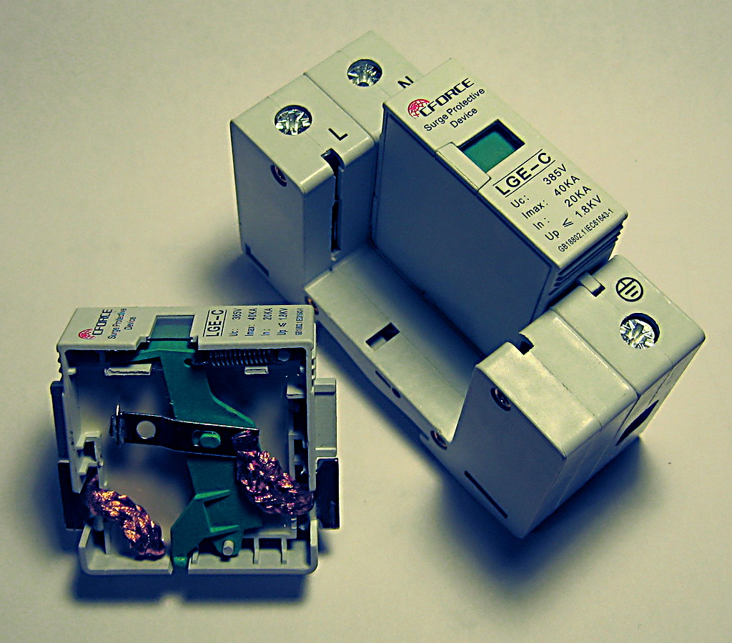 a 2-pole 40kA surge protector for din rail mounting in switchboards